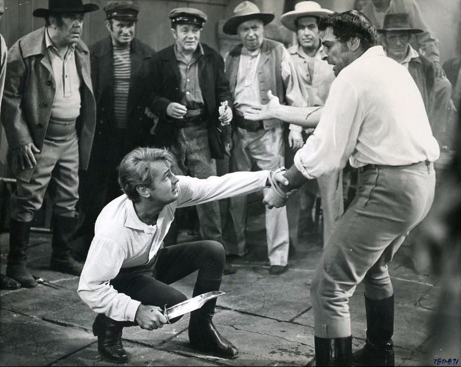 Cropped Studio Publicity Still Photograph of Tony Caruso and Allan Ladd in the 1952 film, The Iron Mistress.